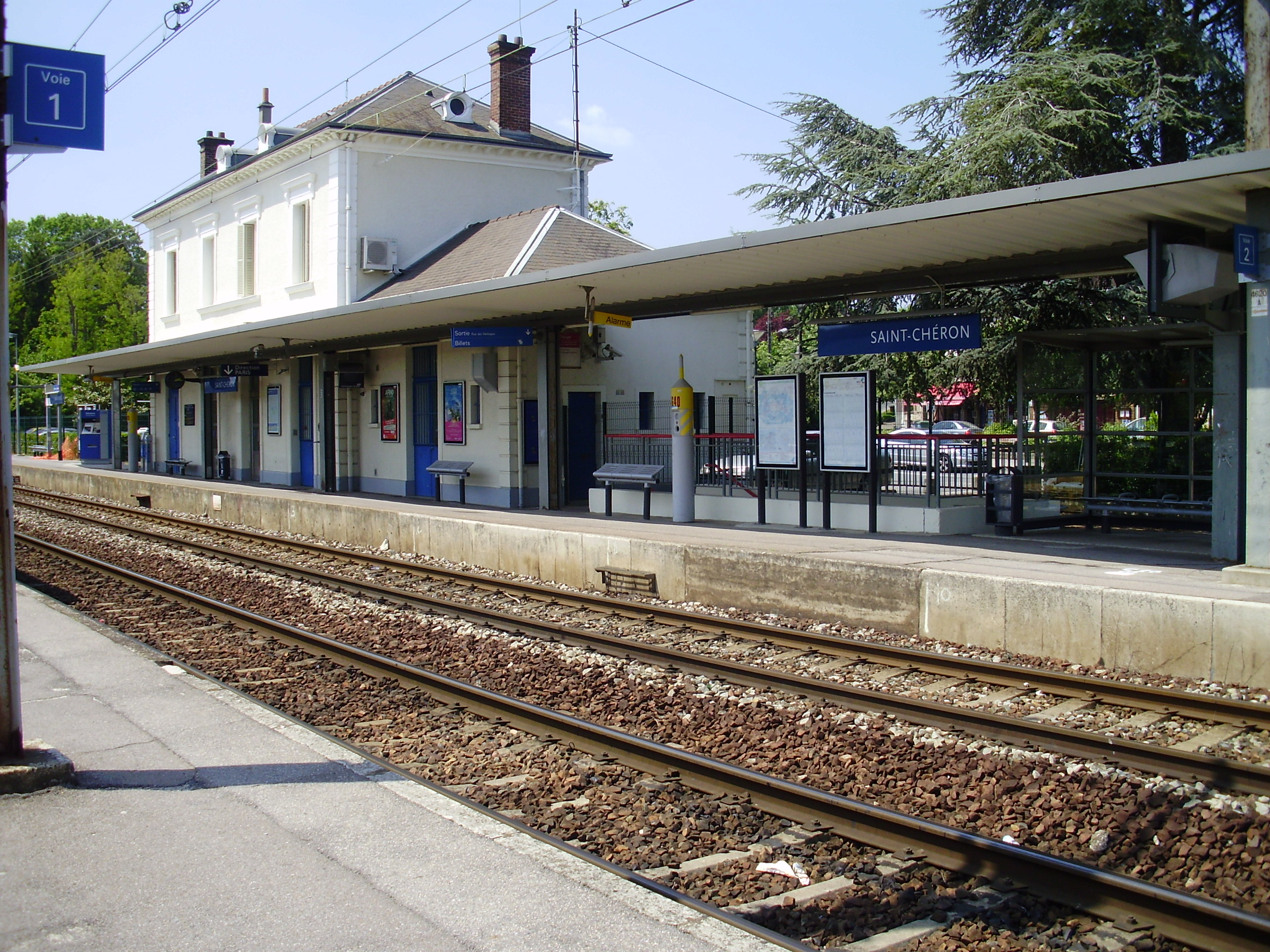 Saint-Chéron station, Essonne, France